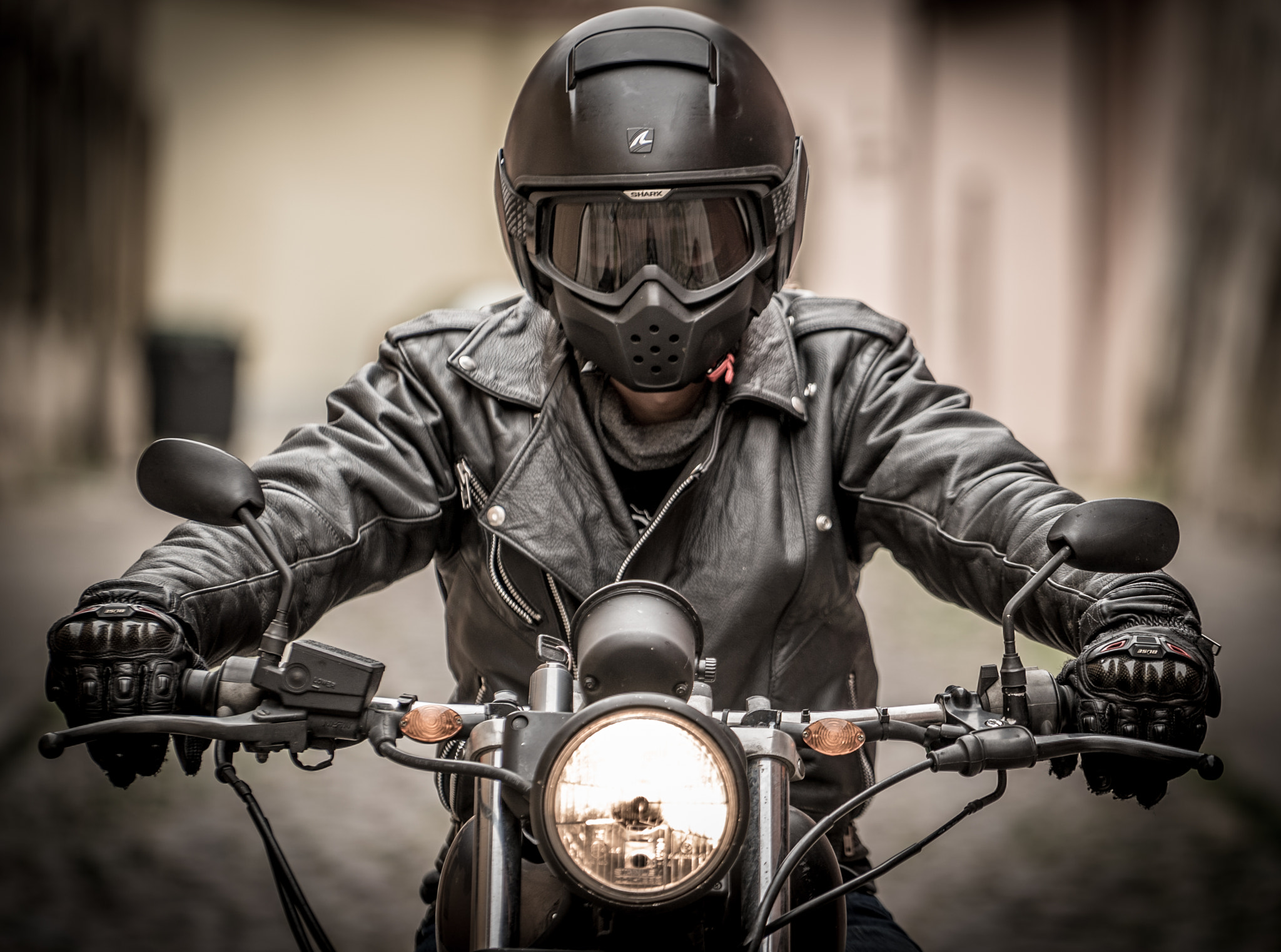 500px provided description: Rider [#city ,#street ,#travel ,#road ,#leather ,#man ,#style ,#black ,#moto ,#motorcycle ,#bike ,#rebel ,#helmet ,#motorbike ,#honda ,#jacket ,#gear ,#bike life]